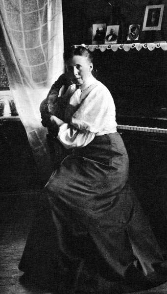 Mathilda Roos